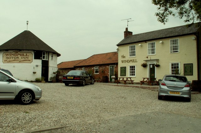 'The Windmill' inn, Chatham Green, Essex. Chatham Green lies just off the main road between Chelmsford and Braintree, near Great Leighs.